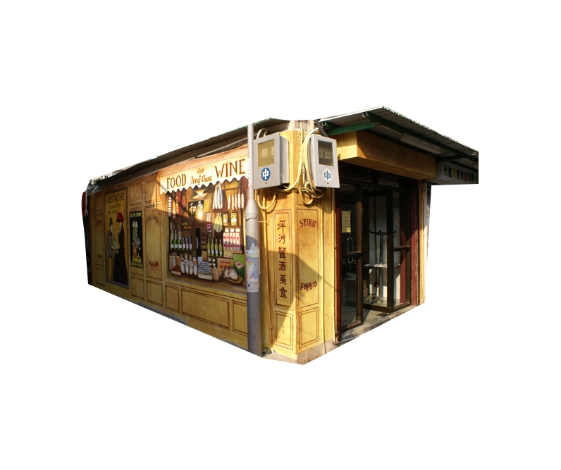 Peng Chau wine & food shop